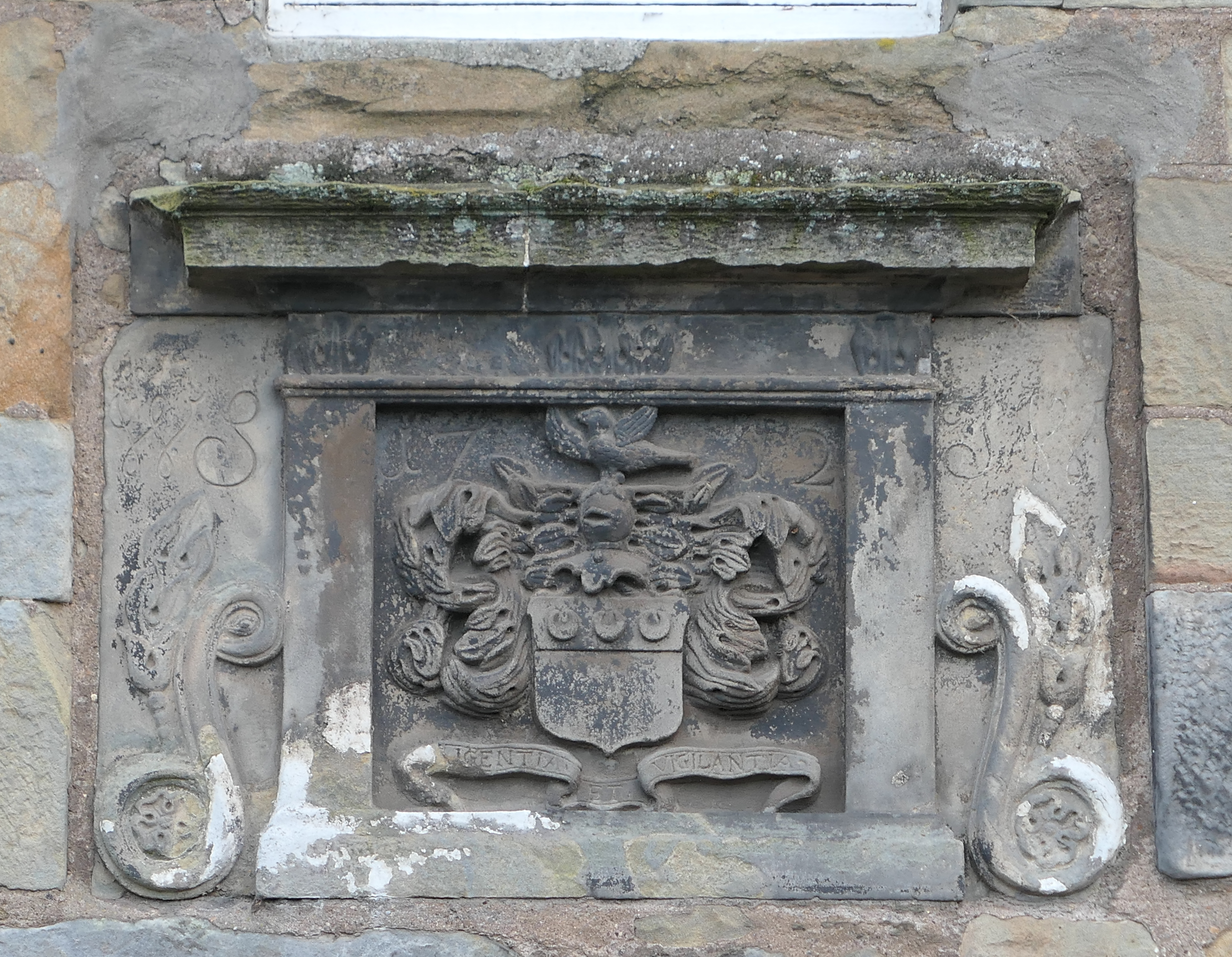 The panel is dated 1712 and shows a coat of arms thought to be that of the hereditary falconers of the Kings of Scotland, with the motto IGENTIA ET VIGILANTIA, Latin for "Diligence and Vigilence".